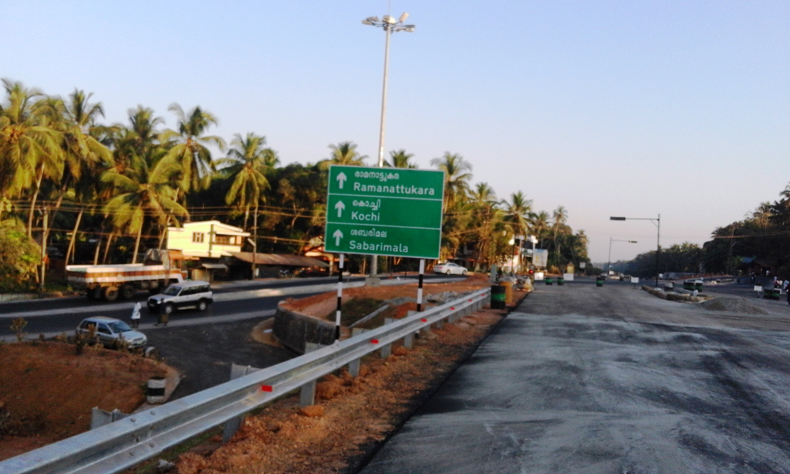 Kozhikode, Kerala, India.